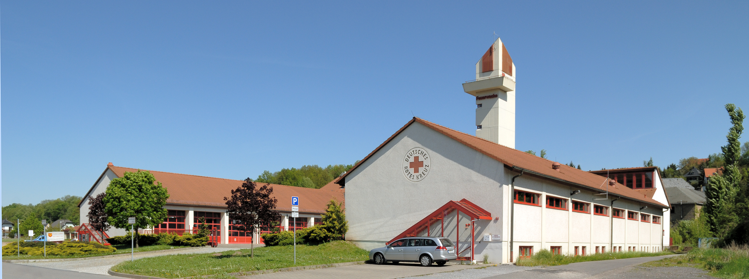 This image shows the fire department and the German Red Cross in Flöha, Germany.